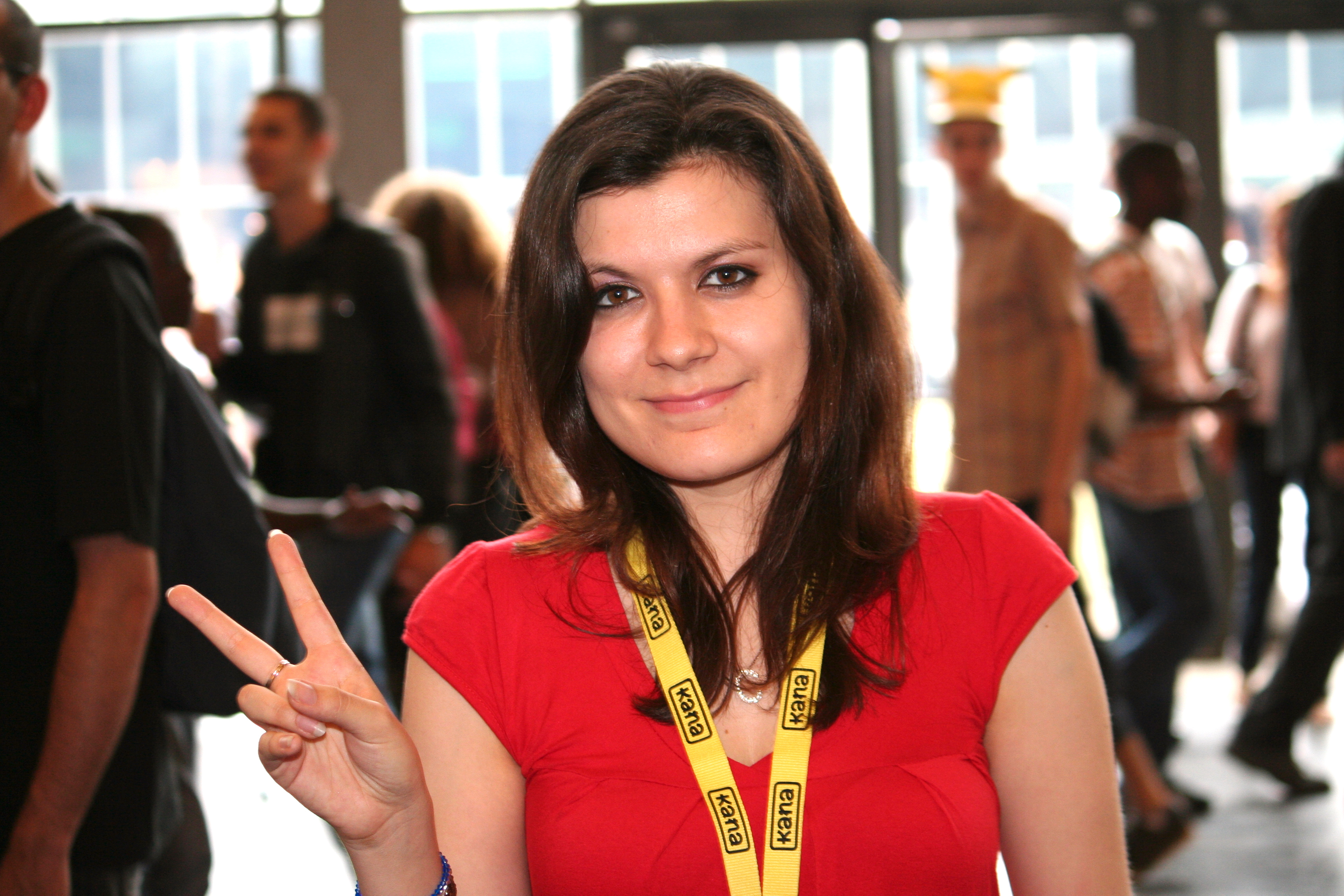 Caroline Segarra at Japan Expo 2008 (Paris, France).